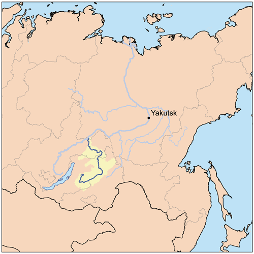 This is a map of the Vitim River Watershed, based on USGS data.